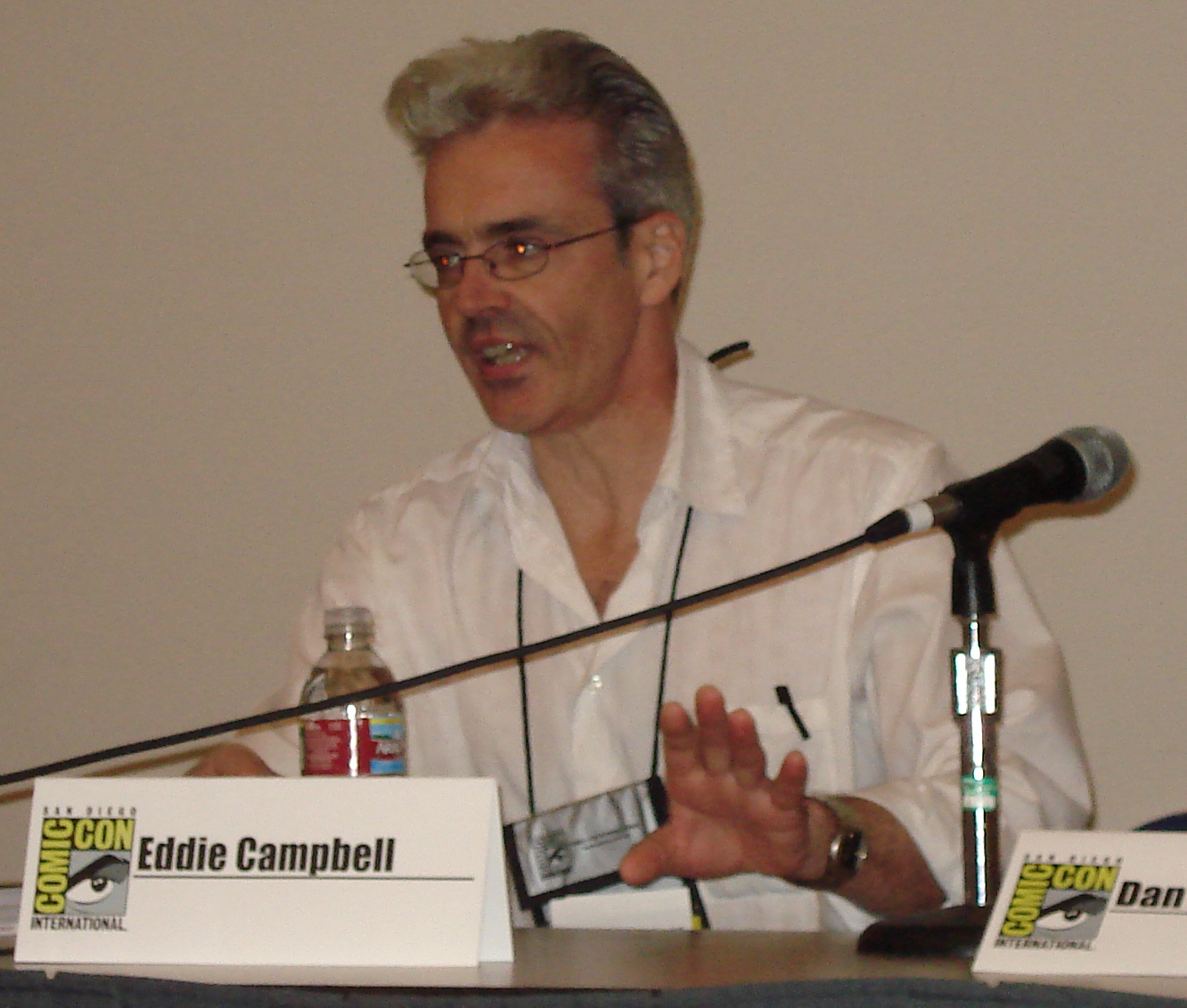 I took this picture of Eddie Campbell at a panel during the San Diego Comicon in 2008.